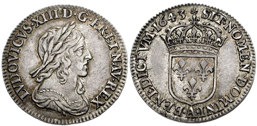 Kings of France. Louis XIII. 1610-1643. AR Douzième d'Écu (21mm, 2.26 g). Paris mint, dated 1643. LVDOVICVS• XIII• D• G• FR• ET• NAVAR• REX, laureate, draped and cuirassed bust right SIT• NOMEN• DOMINI• BENEDICTVM•, crowned coat-of arms of France; rosette above, A below. Duplessy 1352; Ciani 1667; KM 132.1.